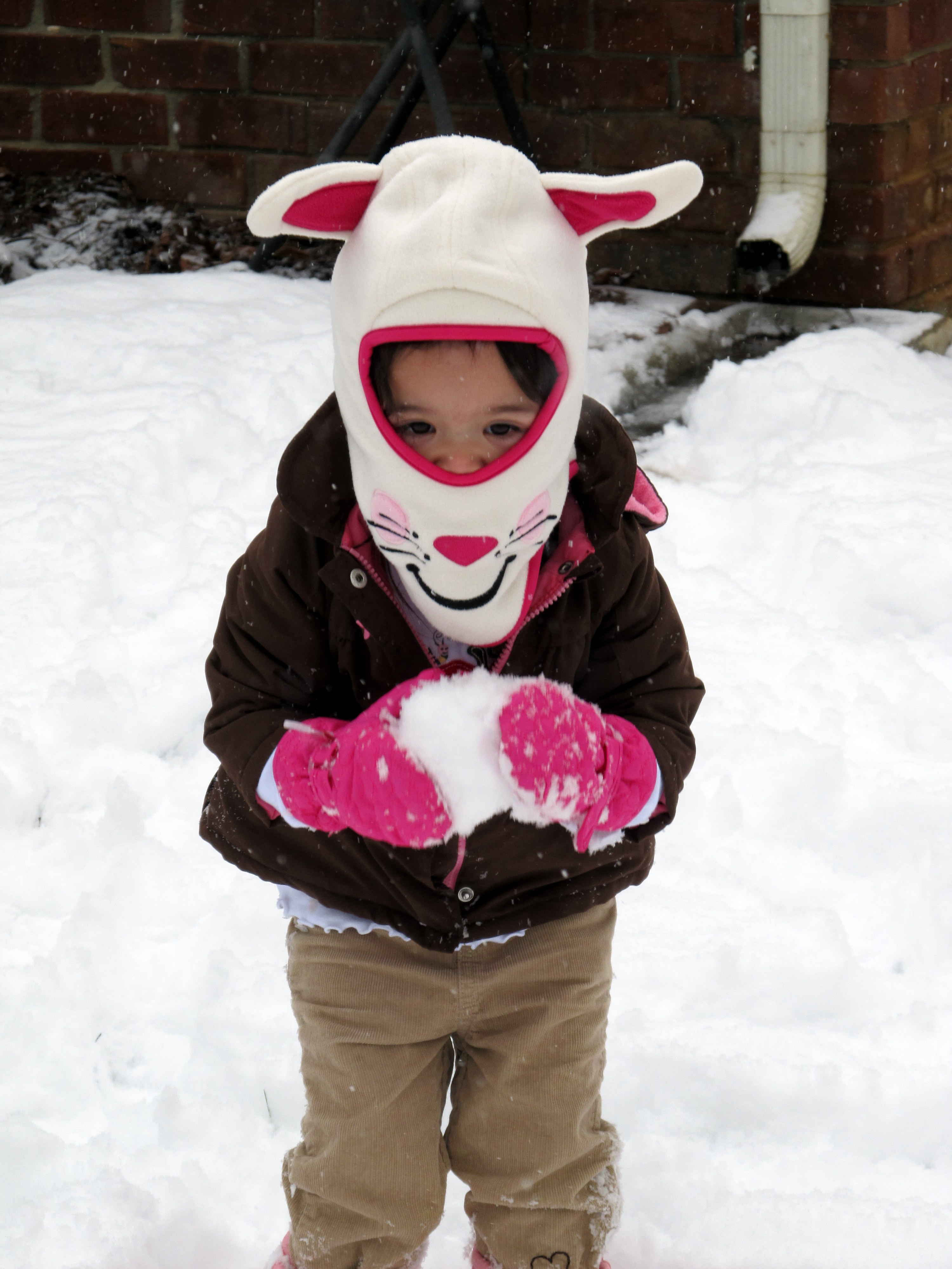 December snow!